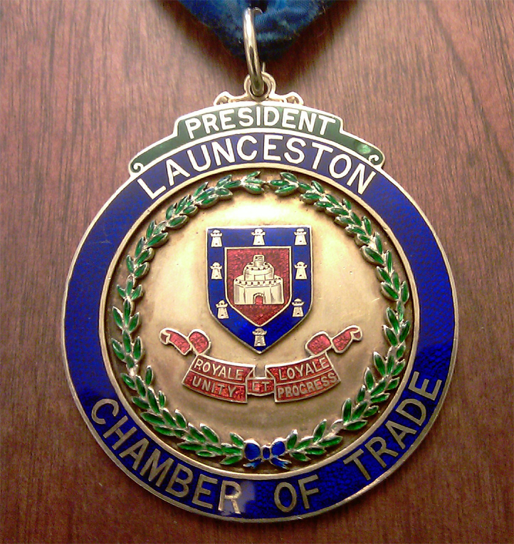 Launceston Chamber of Trade President's Chain. Text in the middle reads 'royale et loyale' and 'unity et progress'. Coat of arms of the Borough of Launceston, Cornwall: Gules, a representantion of Launceston Castle or within a bordure azure an orle of towers of the second.